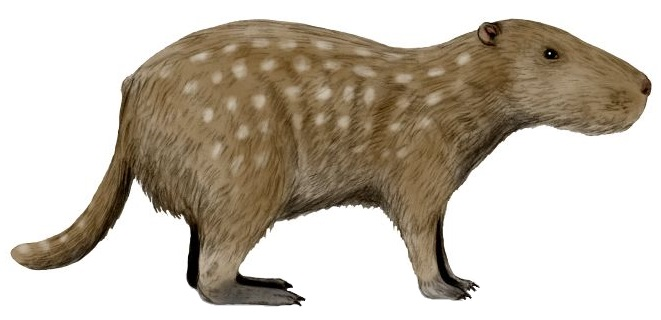 Josephoartigasia monesi, a rodent from the Pliocene of Uruguay, pencil drawing, digital coloring